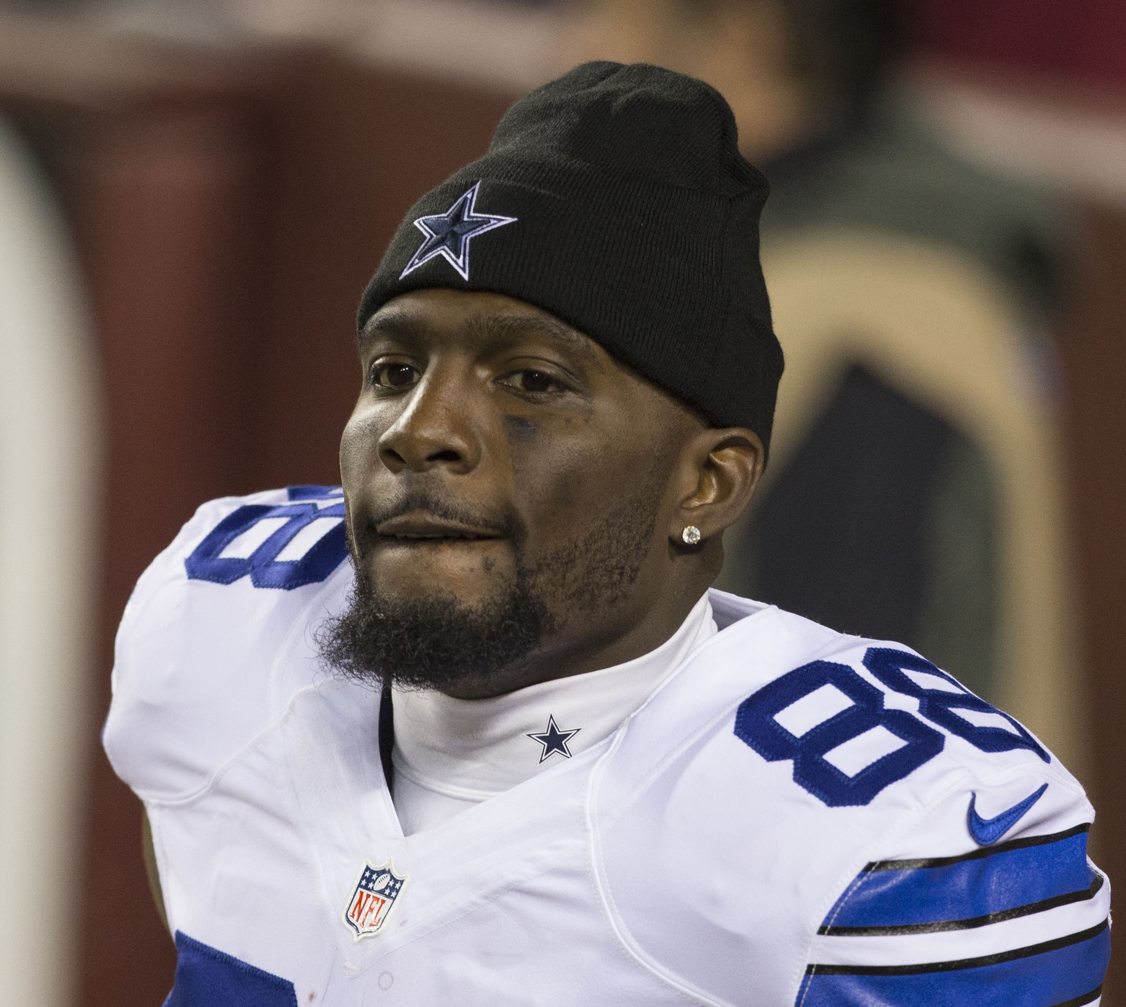 Cowboys at Redskins 12/7/15